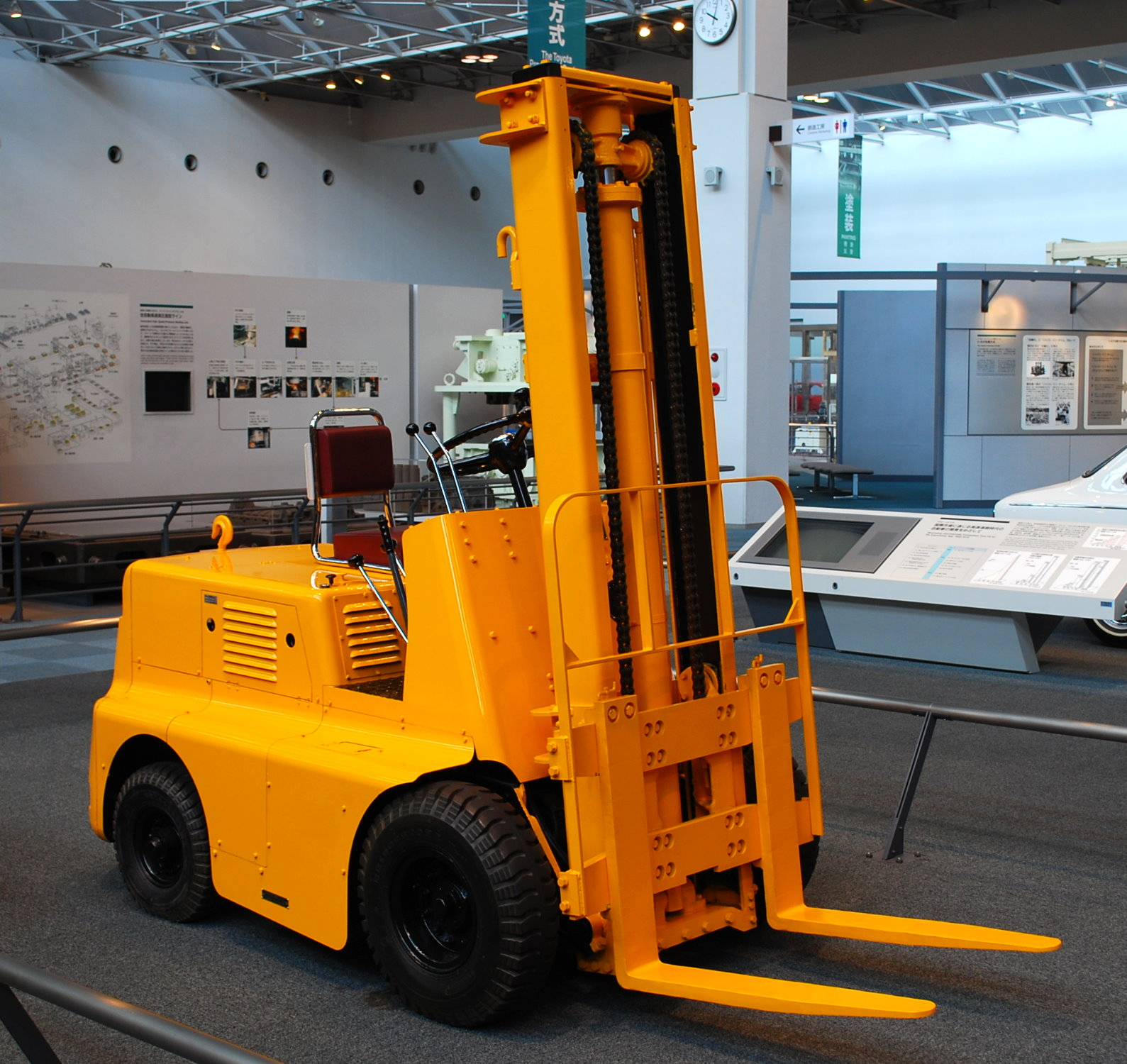 Toyota_Model_LA_Forklift